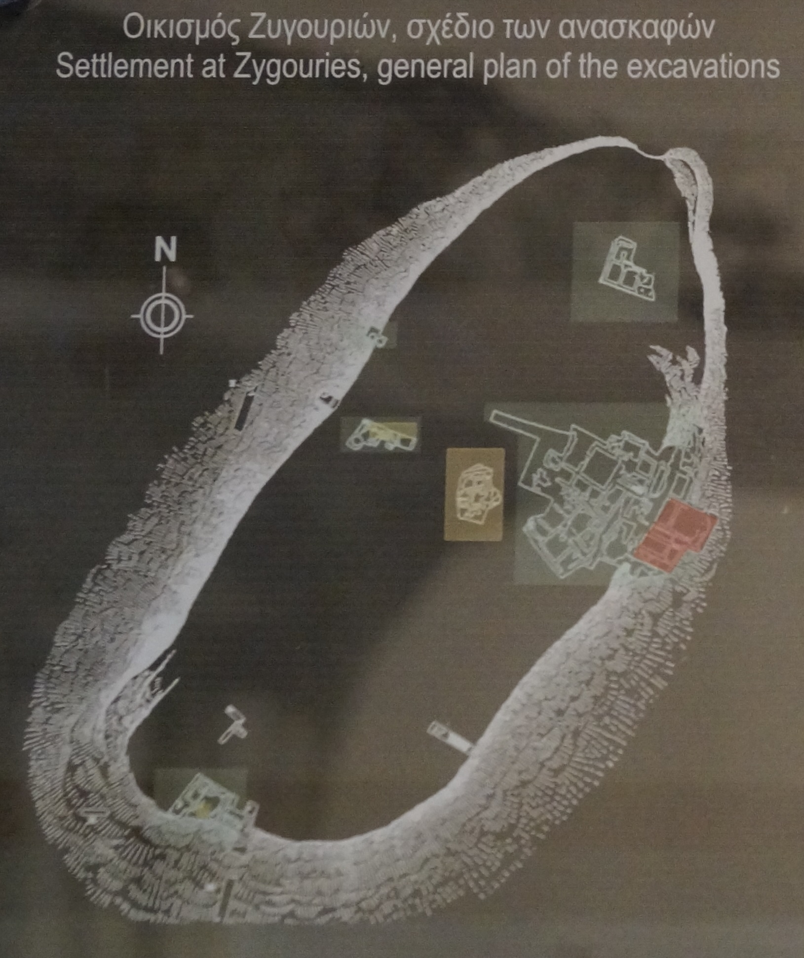 Archaeological Museum of Corinth, Corinthia, Greece: General plan of the archaeological site of Zygouries near Agios Vasilios.Gray: Early Helladic Period (3250-2000 BC)Beige: Middle Helladic Period (2000-1550 BC)Red: Late Helladic Period (1550-1050 BC)